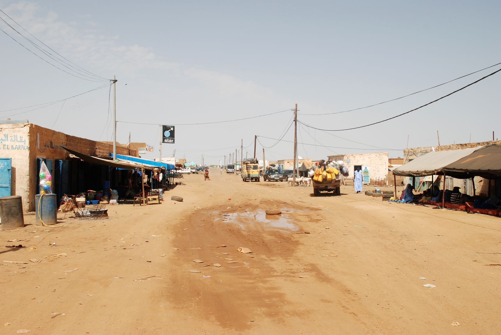 Aleg, Mauritania, main street